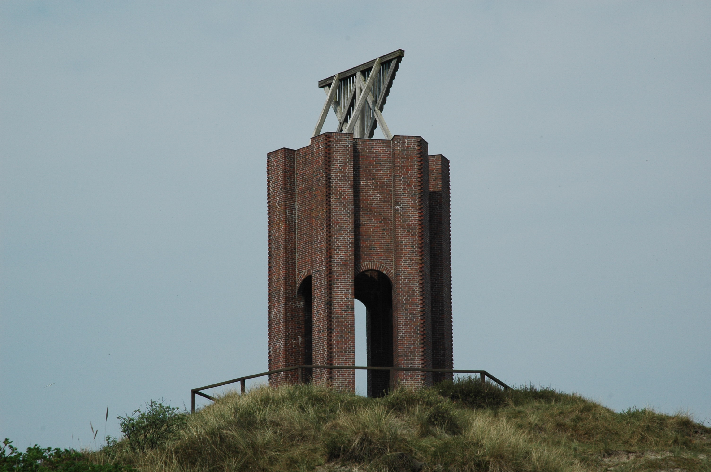 This is a photograph of an architectural monument. .00085M001